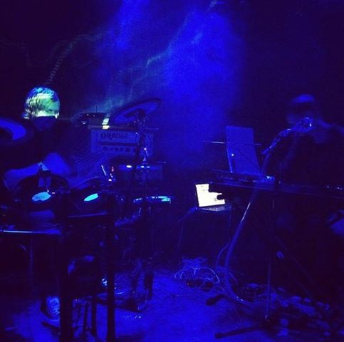 Tråd live @ Etablissemanget, Södra Teatern 2013-01-12